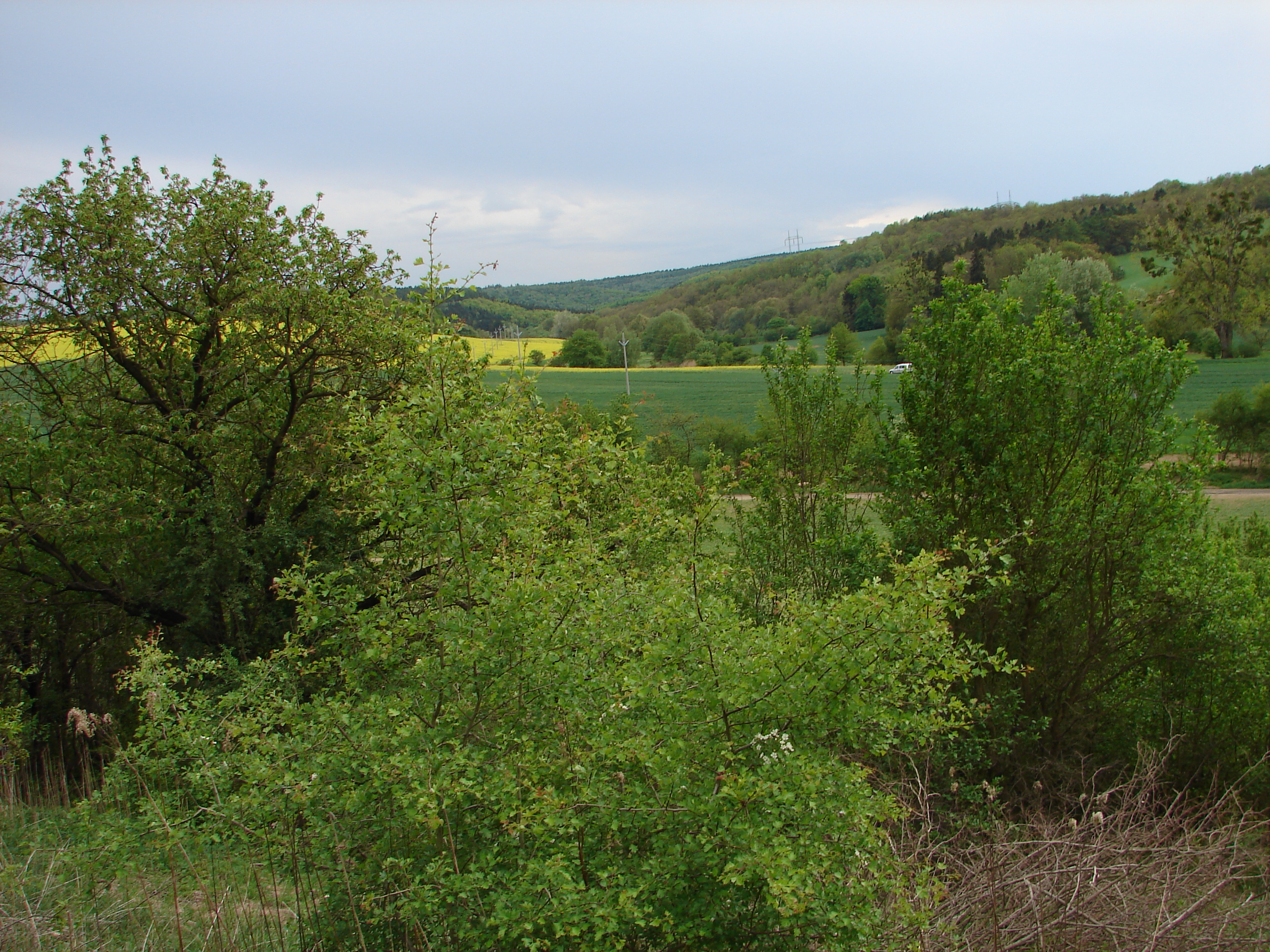 Nature reserve Mušenice in Vyškov District, Czech Republic